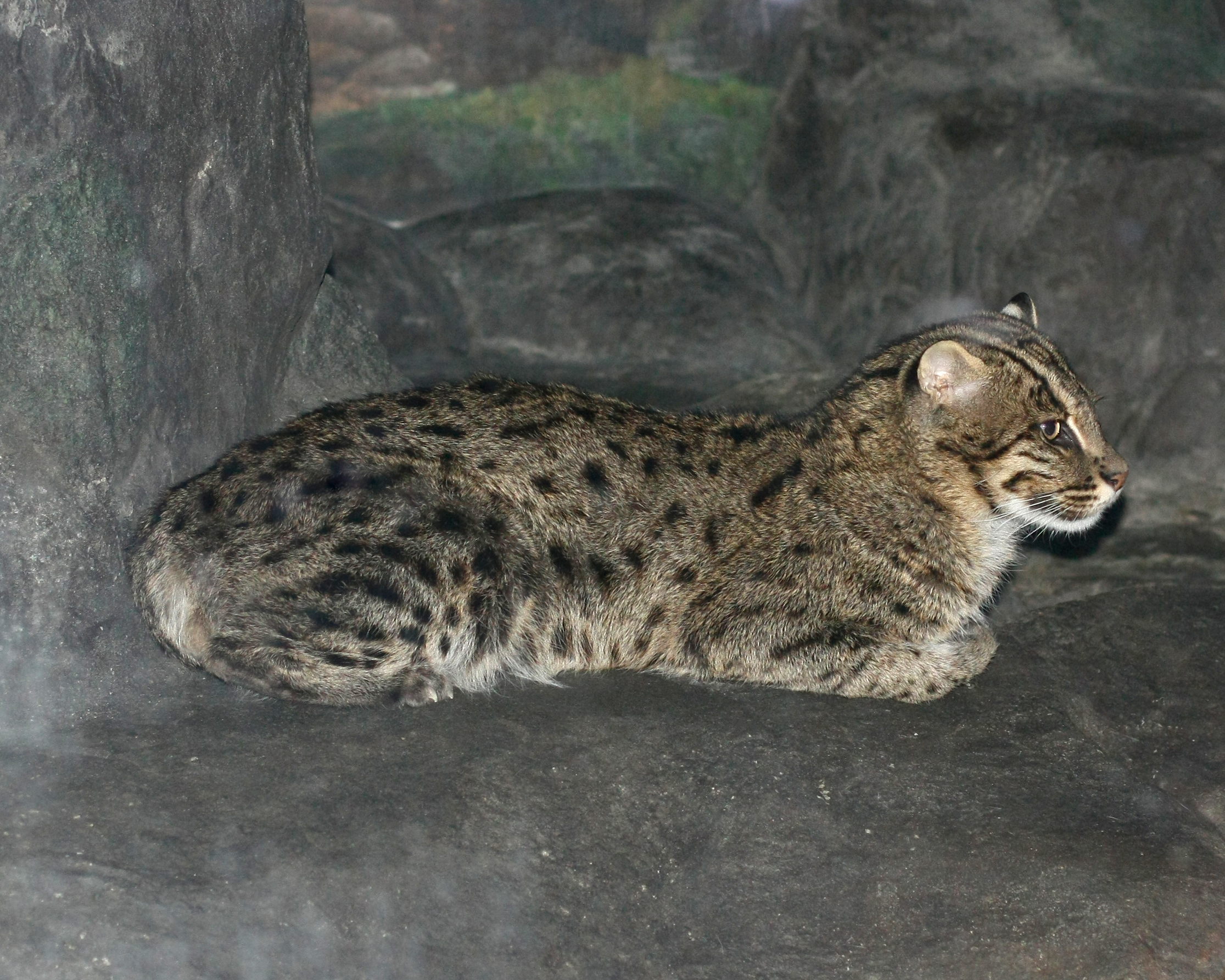 Fishing cat - taken at the Cincinnati Zoo.